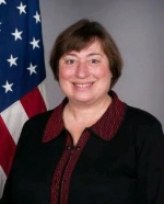 Catherine A. Novelli, Under Secretary of State for Economic Growth, Energy, and the Environment as of 2015